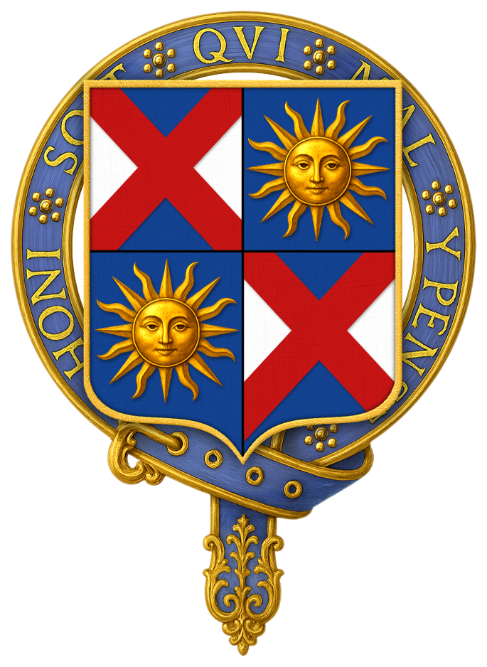 Per saltire argent and azure, a saltire gules (Gage) quartering Azure, a sun in splendour or (St Clere), shield circunscribed by the Garter. Coat of arms of Sir John Gage, KG See Sir John's stall plate within St. George's Chapel. The plate is currently viewable online at the Royal Collection Trust website.